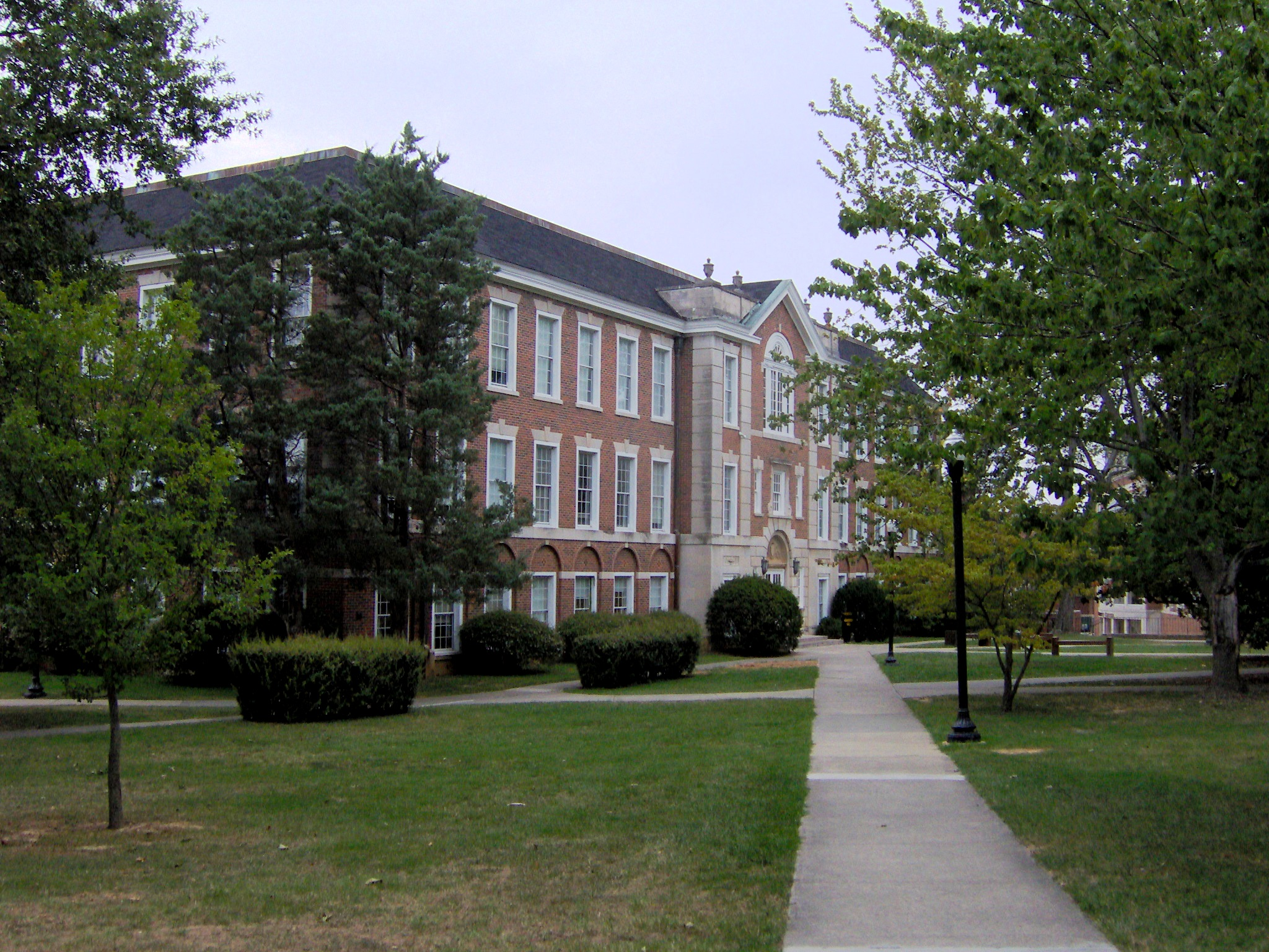 Henderson Hall on the campus of Tennessee Technological University in Cookeville, Tennessee. Erected in 1931, placed on National Register of Historic Places in 1985.